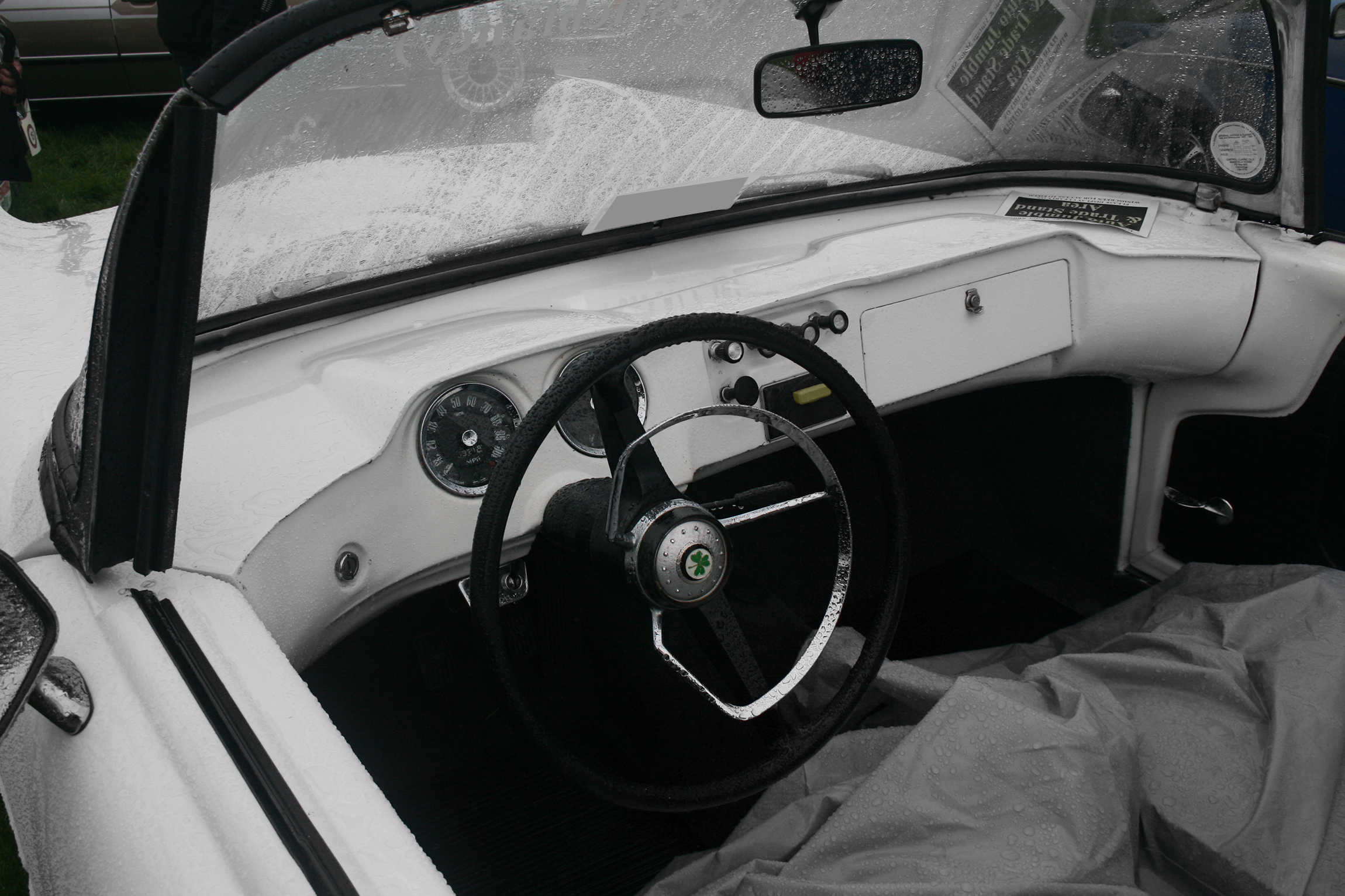 shamrock interior